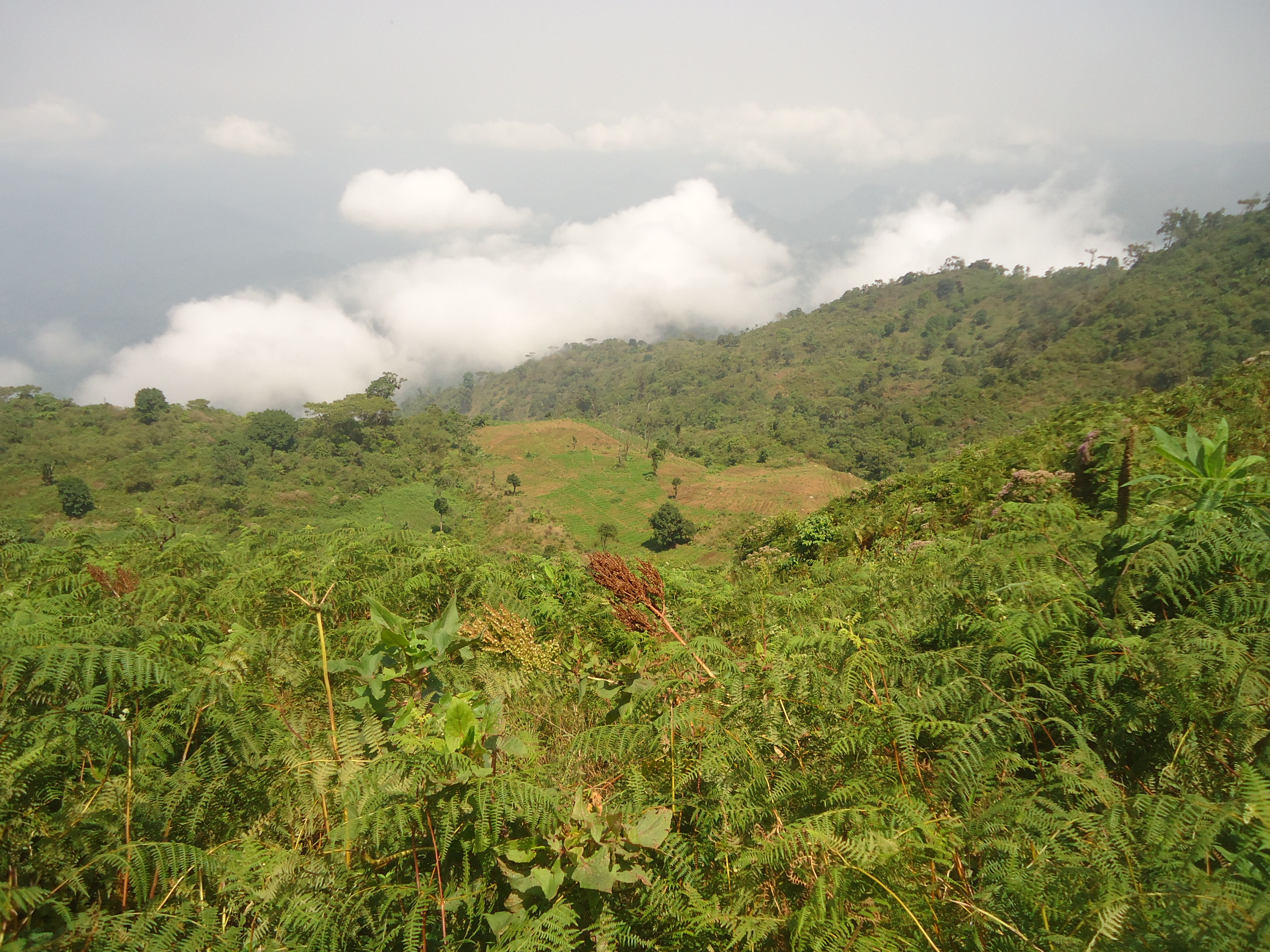 Vegetation and Beautiful sky